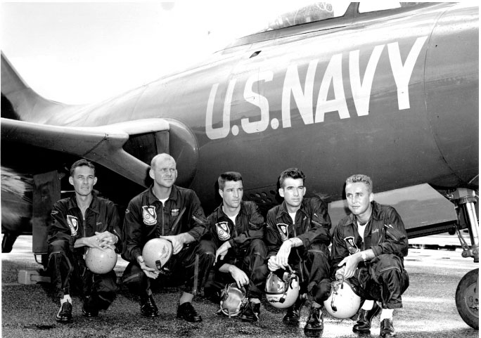 The second Blue Angels flight demonstration squadron to be commanded by Lieutenant Commander Roy M. "Butch" Voris (l to r): Lt. Tom Jones, Lt. Cdr. R.M. Voris, Lt. Pat Murphy, Lt. "Mac" MacNight, Lt. Bud Rich. This image is the work of an employee of the United States Navy made during the course of his/her duties and can be found at and elsewhere.